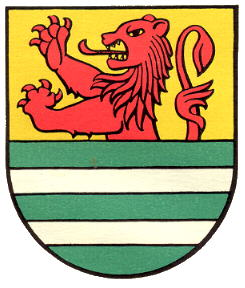 Coats of arms of swiss comune of Balgach